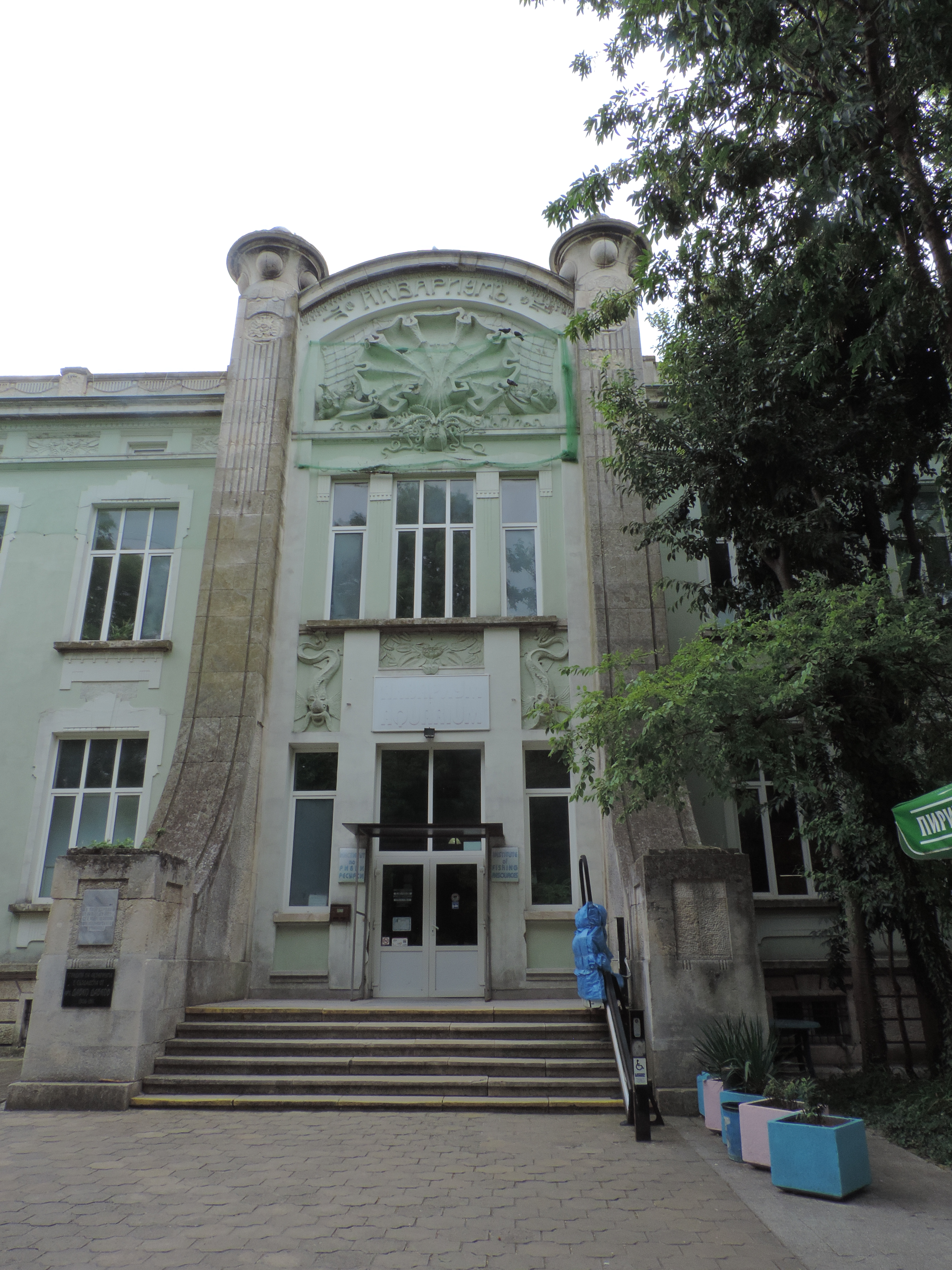 The Varna Aquarium is a public aquarium in Varna, Bulgaria's largest city on the Black Sea coast. The aquarium's exhibition focuses on the Black Sea's flora and fauna which includes over 140 fish species, but also features freshwater fish, Mediterranean fish, exotic species from faraway areas of the World Ocean, mussels and algae.